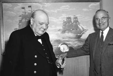 Prime Minister Winston Churchill (left) and President Harry S. Truman (right) in the presidential lounge of the USS Williamsburg near Washington, D.C. during the Prime Minister's visit to America. The painting in the background is "The Naval Engagement Between the USS Constitution and HMS Java During the War of 1812" by Charles Patterson. From: Robert Dennison.